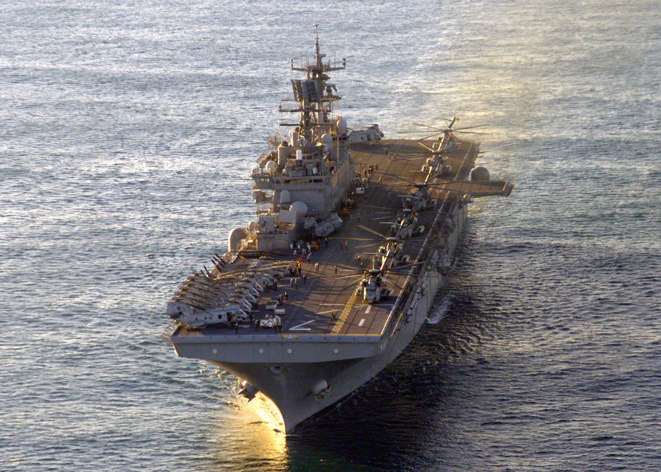 At sea with USS Iwo Jima (LHD 7) Feb. 5, 2003 – Aerial of Iwo Jima as it steams back to Norfolk, Va. Iwo Jima is conducting training in the Atlantic Ocean in preparation for their upcoming deployment in support of Operation Enduring Freedom. U.S. Navy photo by Photographer’s Mate 1st Class Peter Cline. (RELEASED)